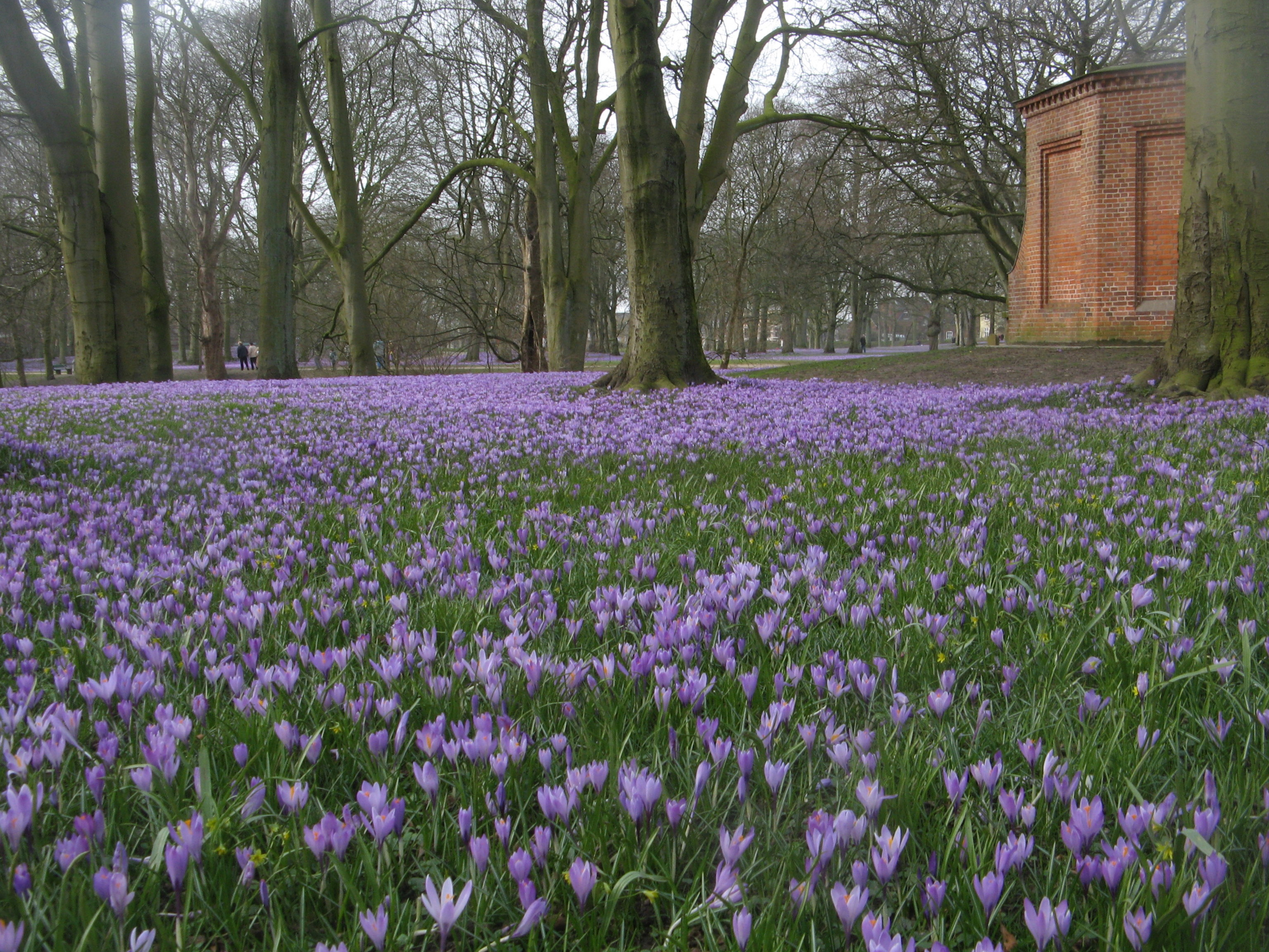 Husum castle, crocus flower